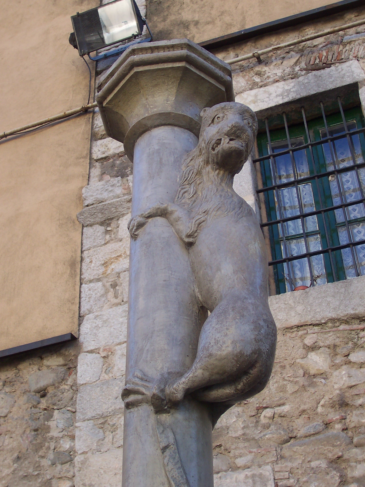 The lioness of Girona